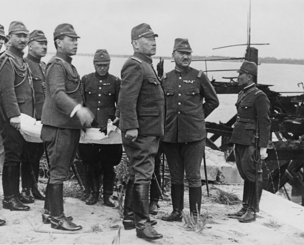 General Hajime Sugiyama inspecting Japanese landing sites at Shanghai